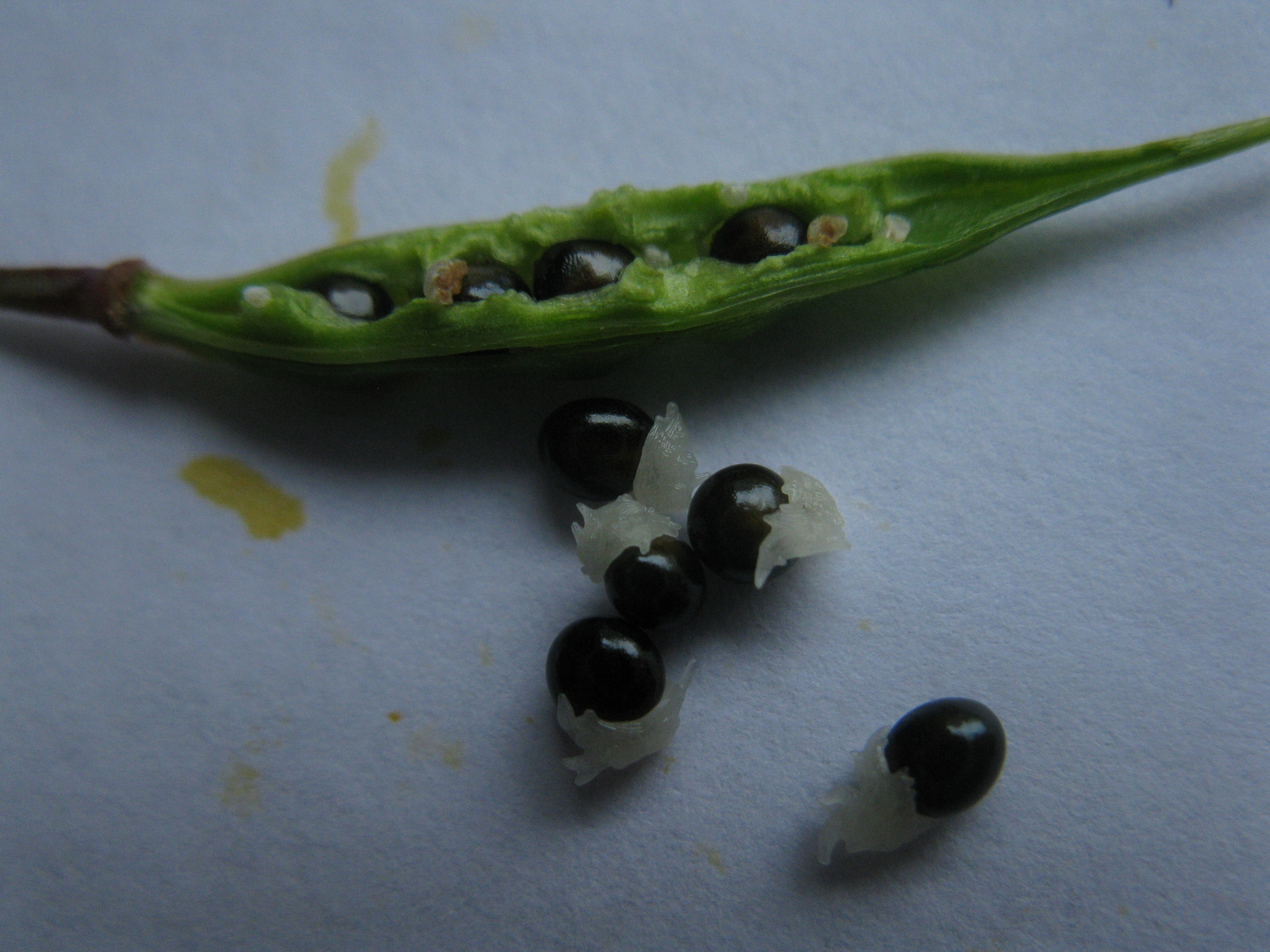 Common bleeding-heart (Dicentra or Lamprocapnos spectabilis) half-pod and slightly under-ripe seeds with elaiosomes